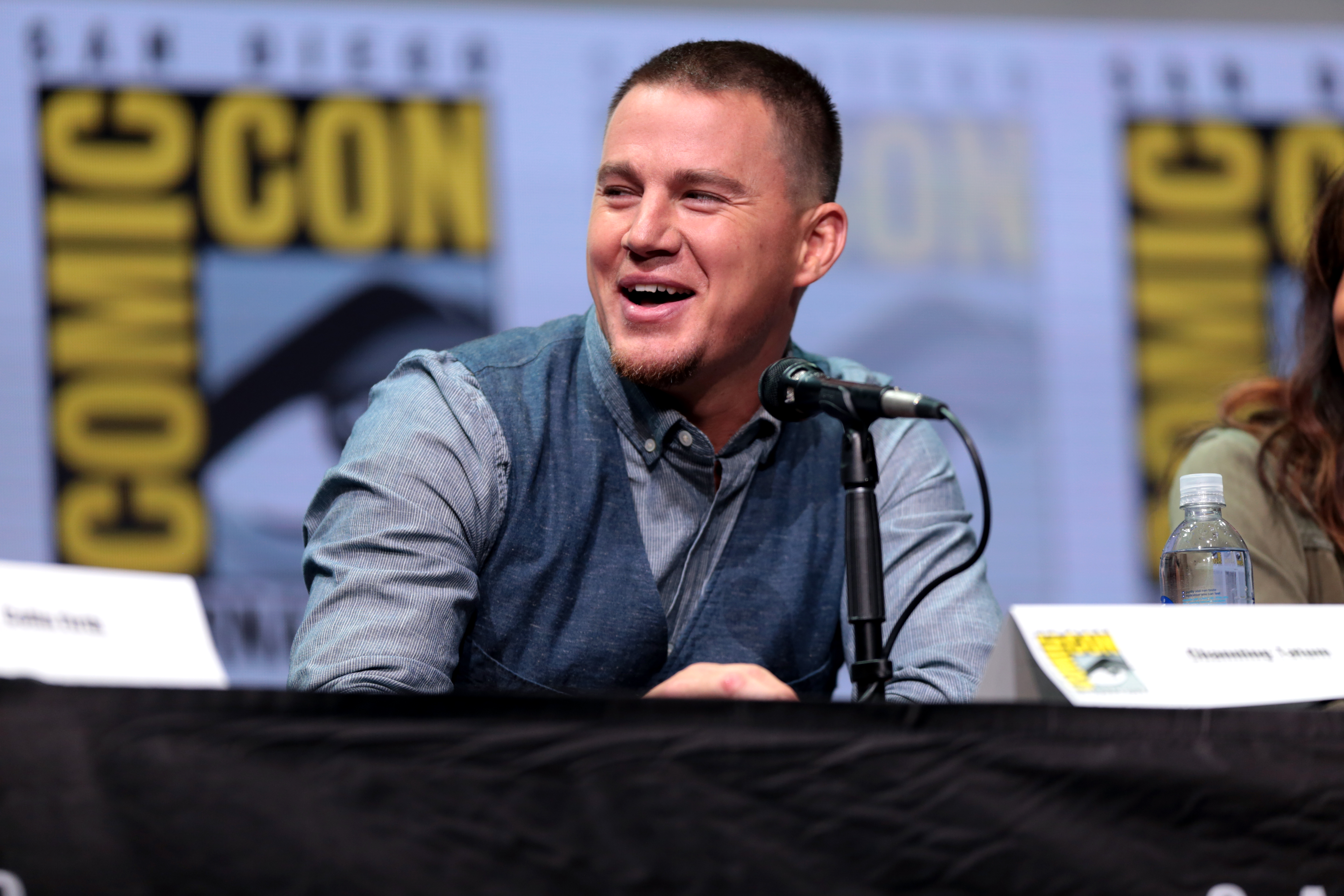 Channing Tatum speaking at the 2017 San Diego Comic Con International, for "Kingsman: The Golden Circle", at the San Diego Convention Center in San Diego, California.